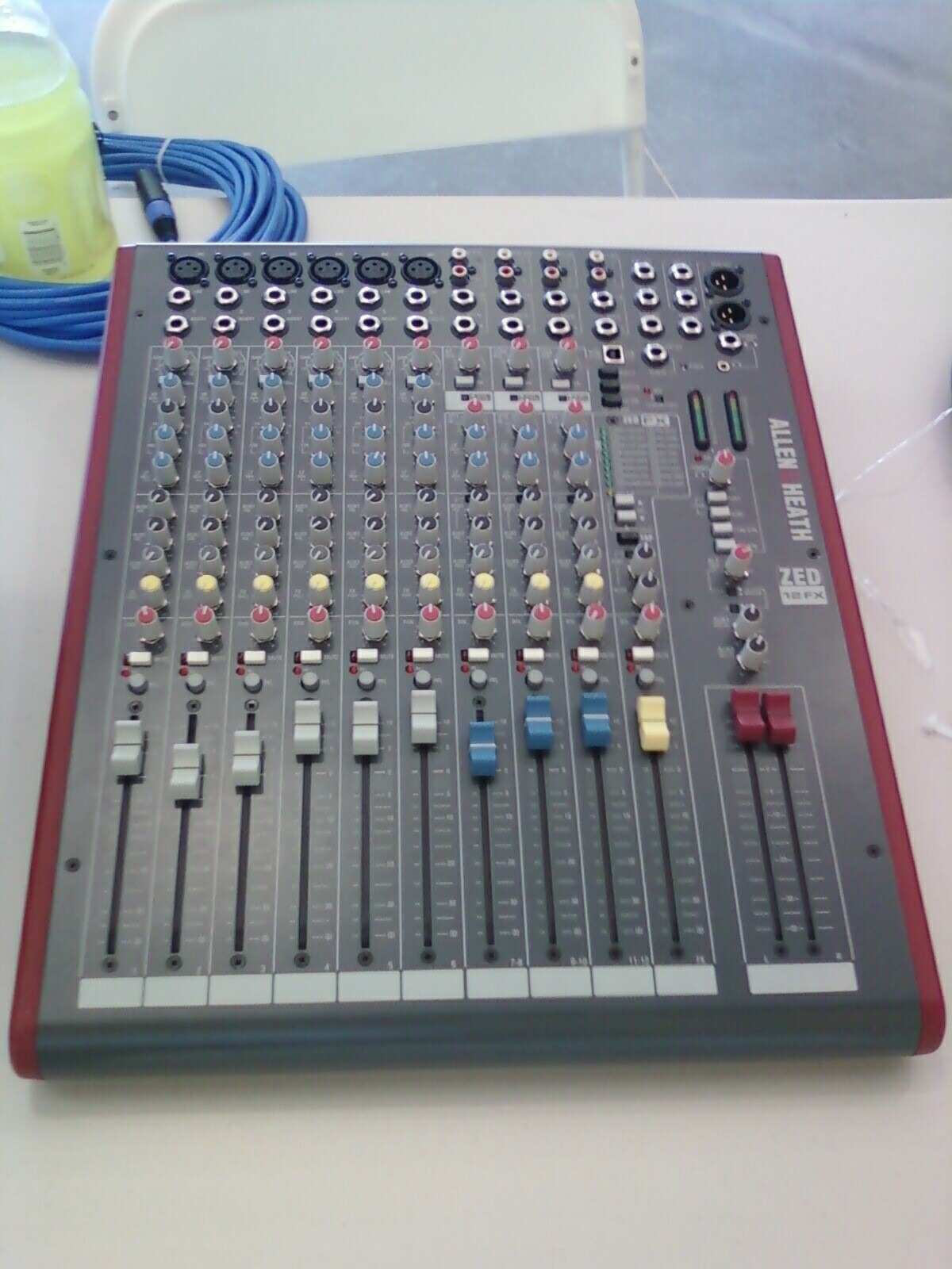 Allen&Heath ZED-12FX Wish it were mine. This is the board that Paul got for the vaulter party / dance.